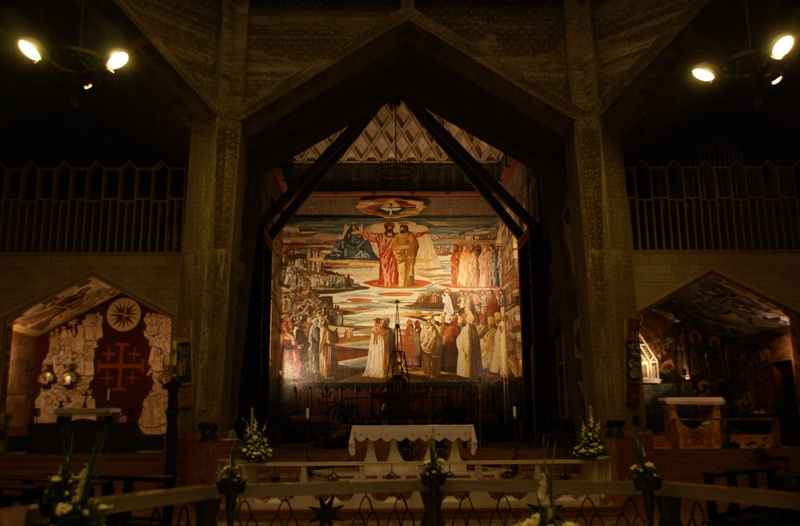 Basilica of the Annunciation, Nazareth, Israel - upper church